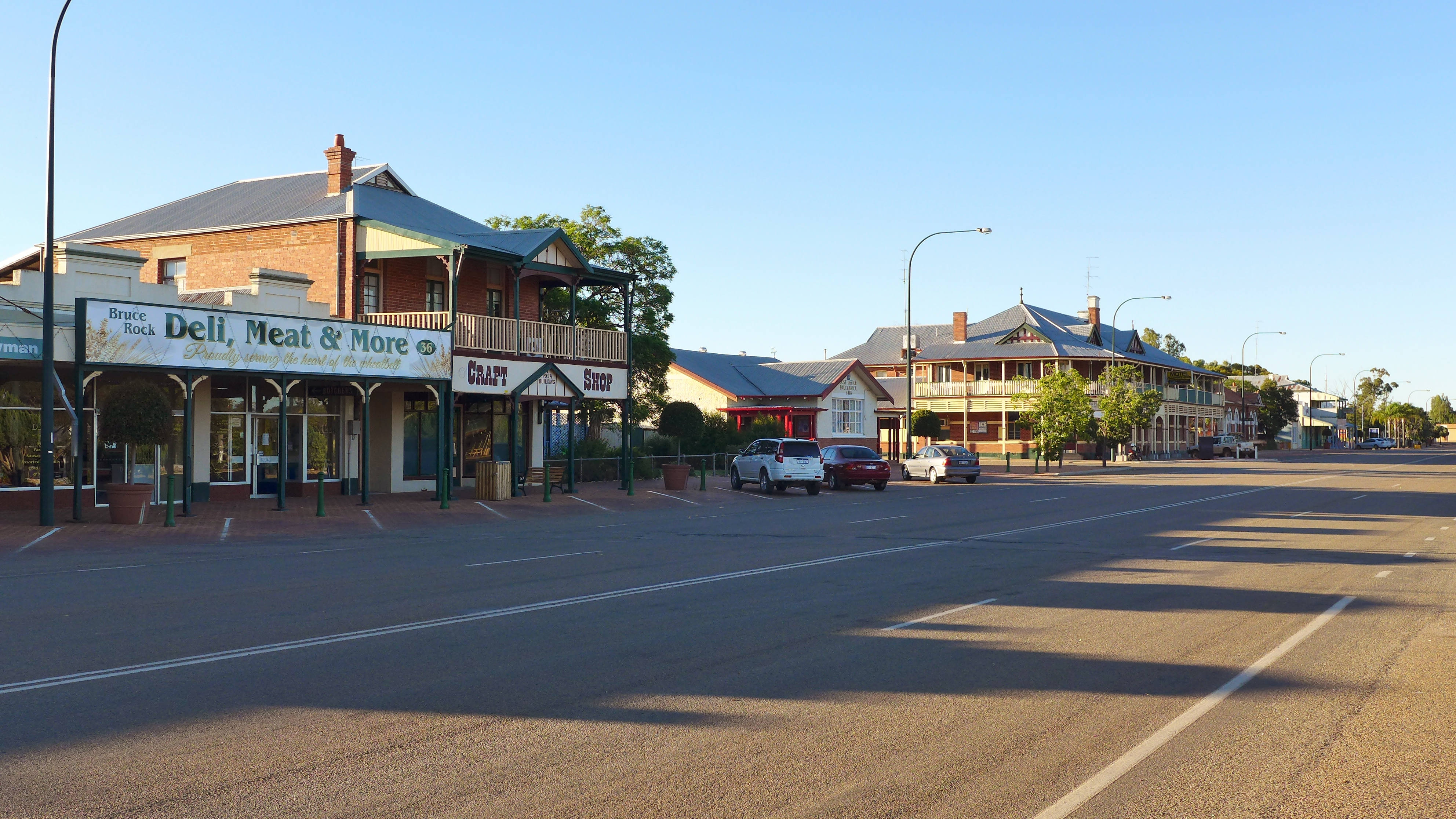 View of Johnson Street, the main street of Bruce Rock, Western Australia. In the middle of the image is the Post Office, and at right is Bruce Rock Hotel.